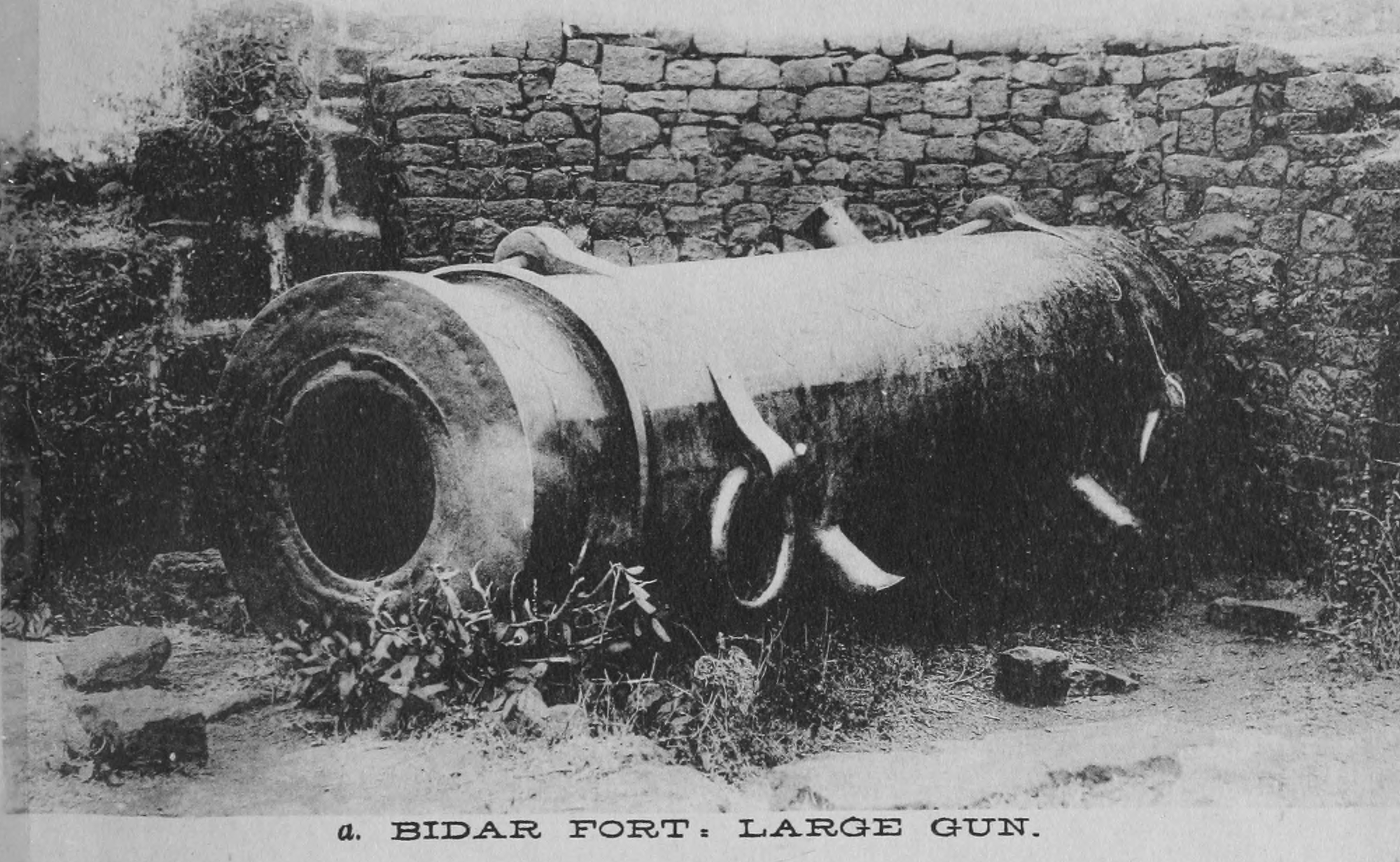 Plates from Antiques of Bidar by G. Yazdani. Can be accessed on the Internet Archive on the url